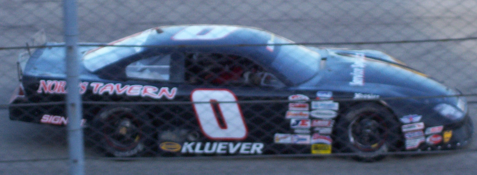 The ASA Midwest Tour car of Todd Kluever at the Milwaukee Mile.